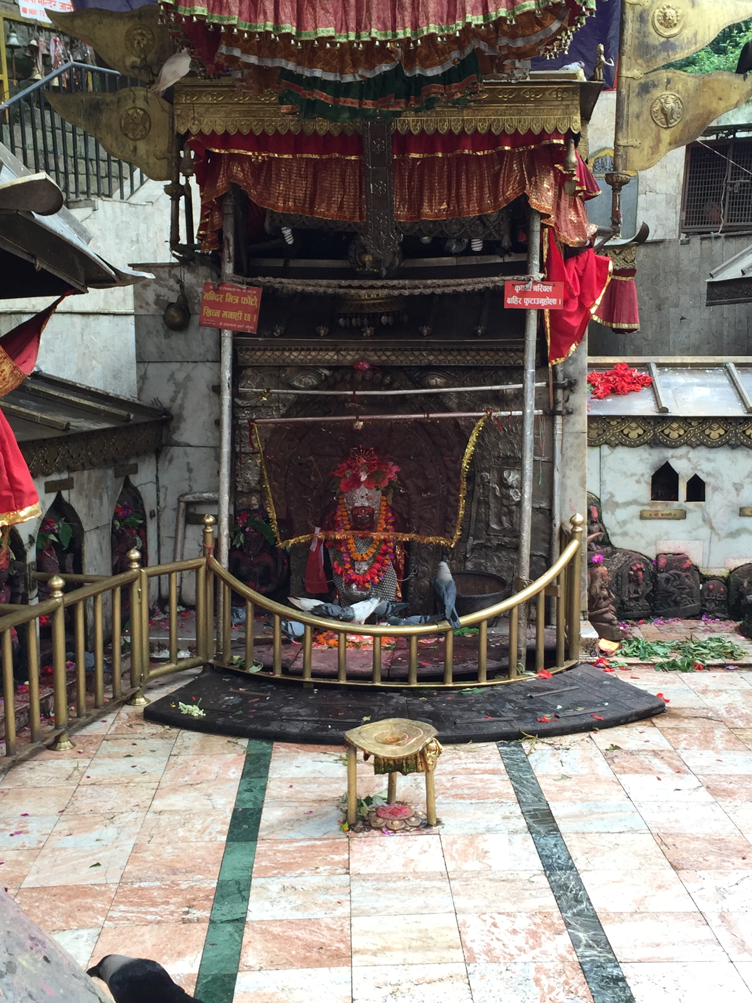 Dhakshin kali kathmandu